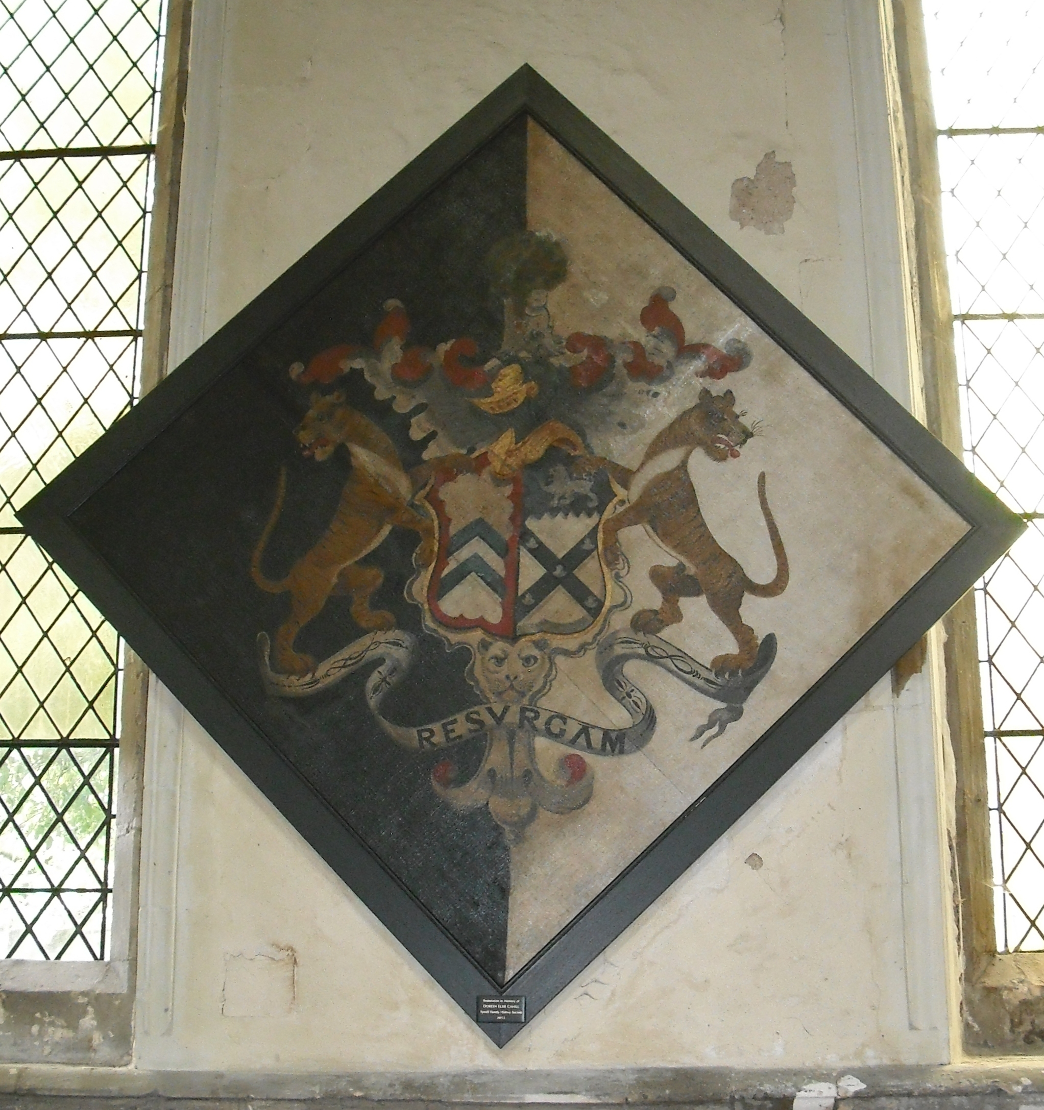 File:St Peter and St Mary's church, Stowmarket, Suffolk - hatchment